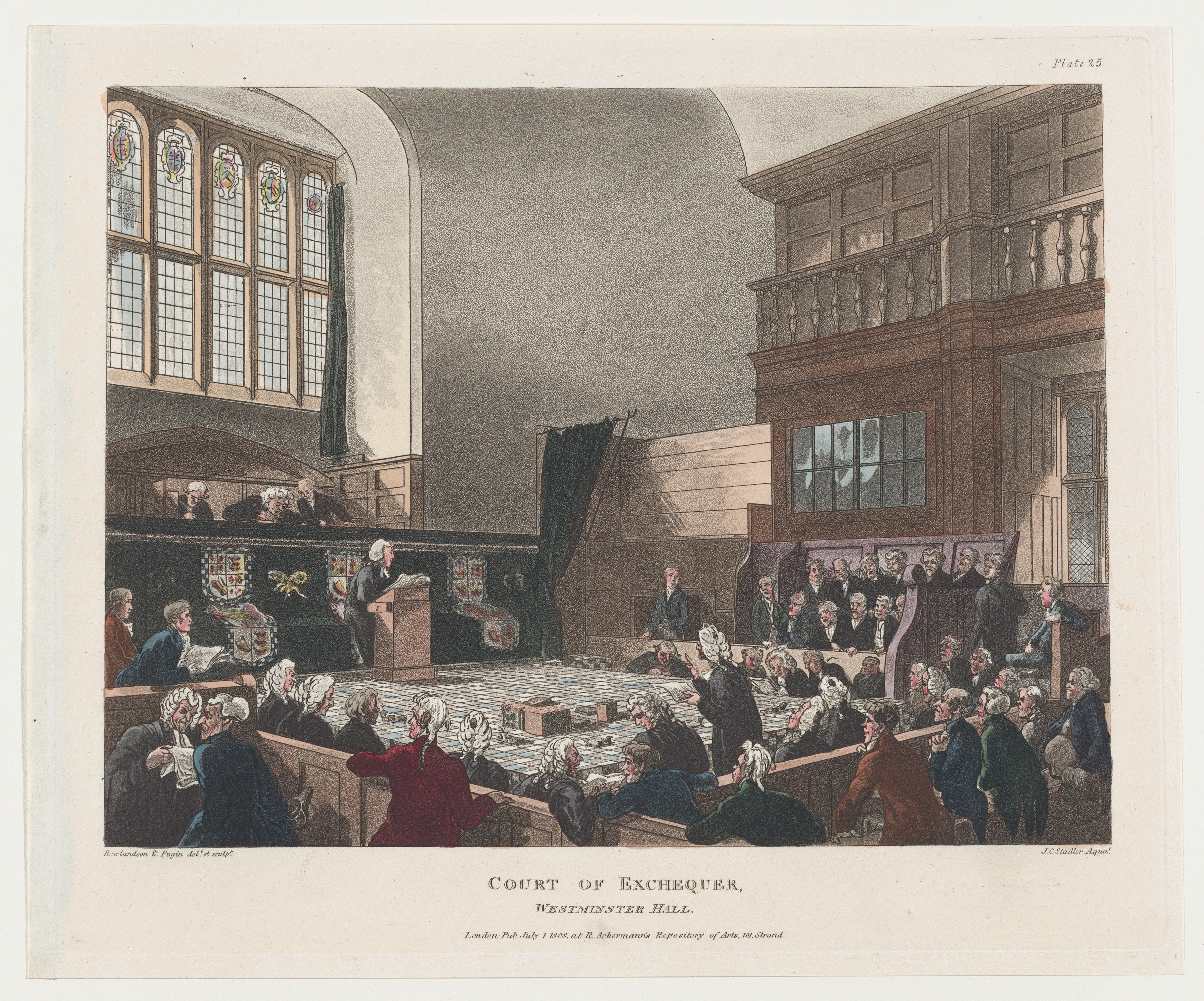 Print; Prints